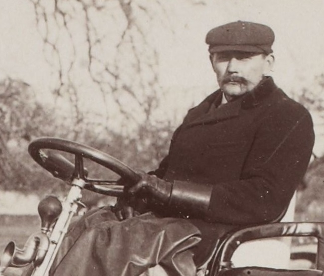 [Collection Jules Beau. Photographie sportive] : T. 16. Années 1901 et 1902 / Jules Beau : F. 19. Course de côte de Gaillon, 17 novembre 1901